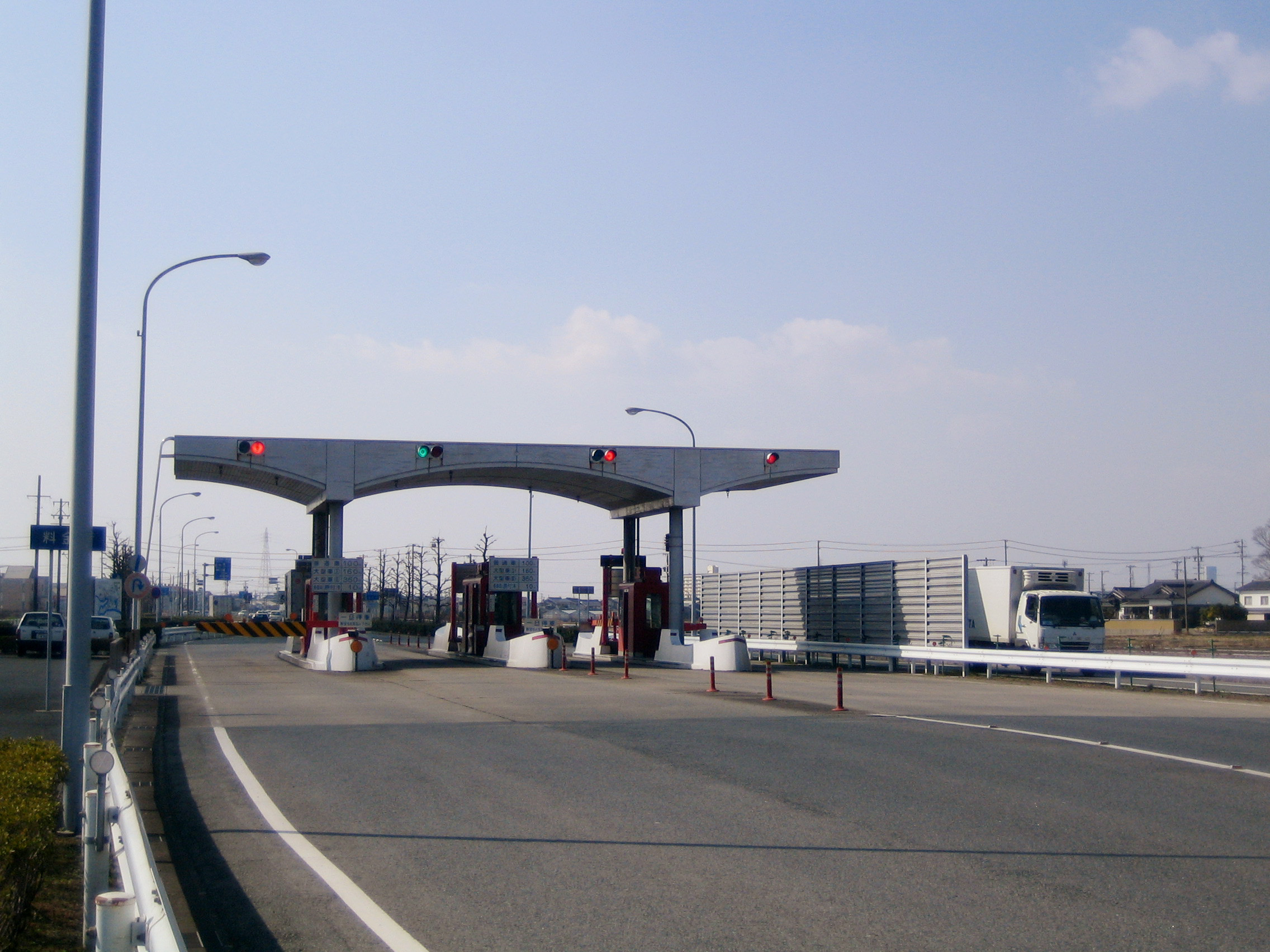 Kozakai By-pass (小坂井バイパス), located in Kozakai, Aichi, Japan